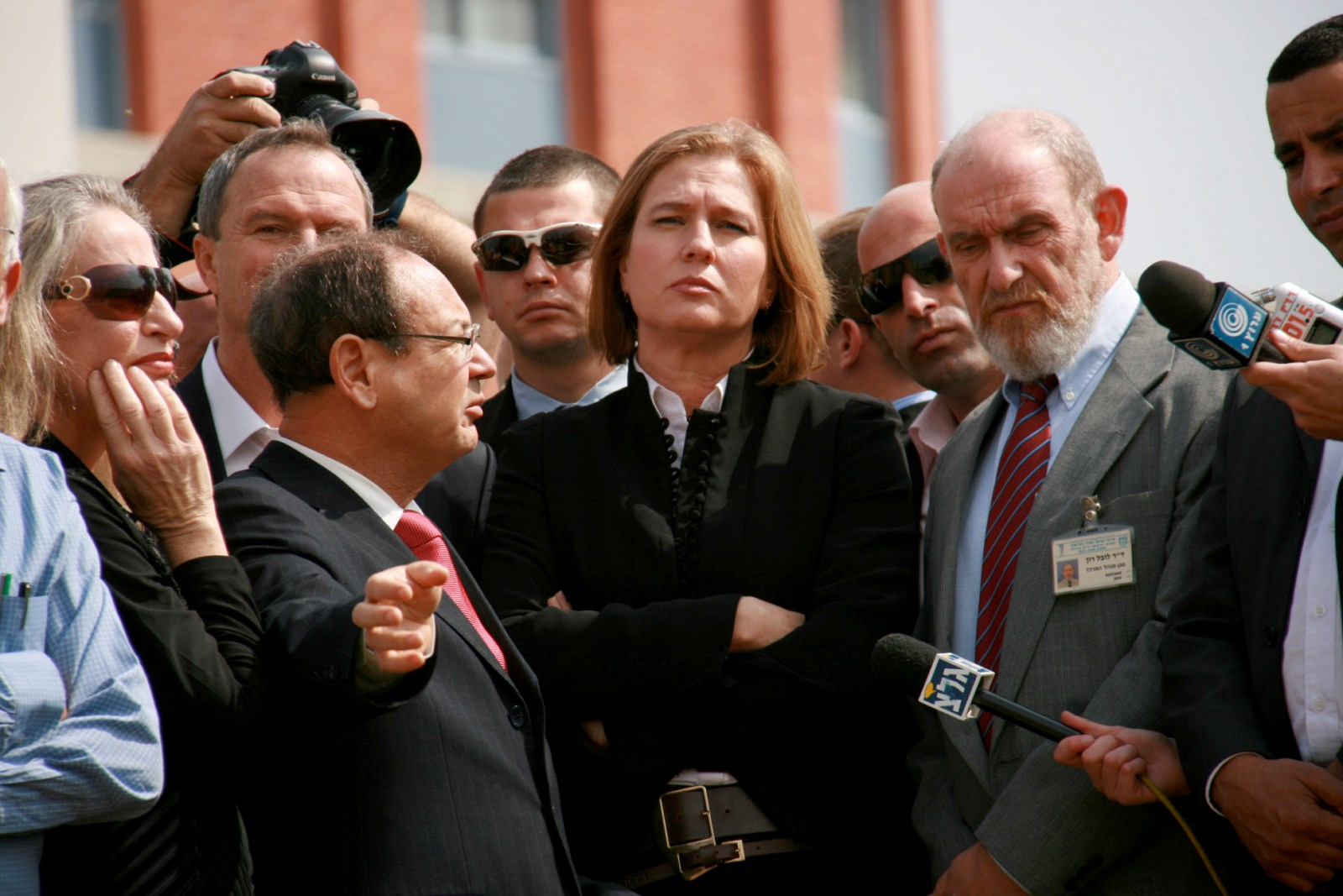 leader of Opposition Tzipi Livni during a visit at the Barzilai Medical Center, Ashkelon, Israel.